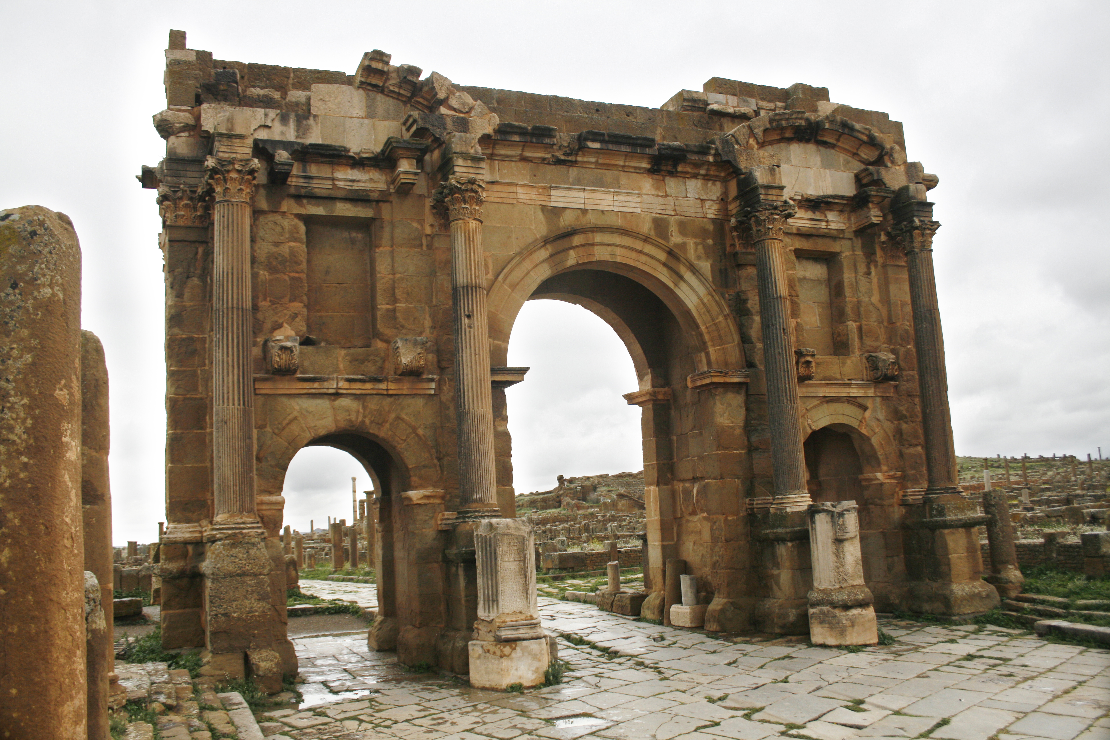 Roman Arch of Timgad (generally known as the Arch of Trajan) in Timgad, Batna Province, Algeria